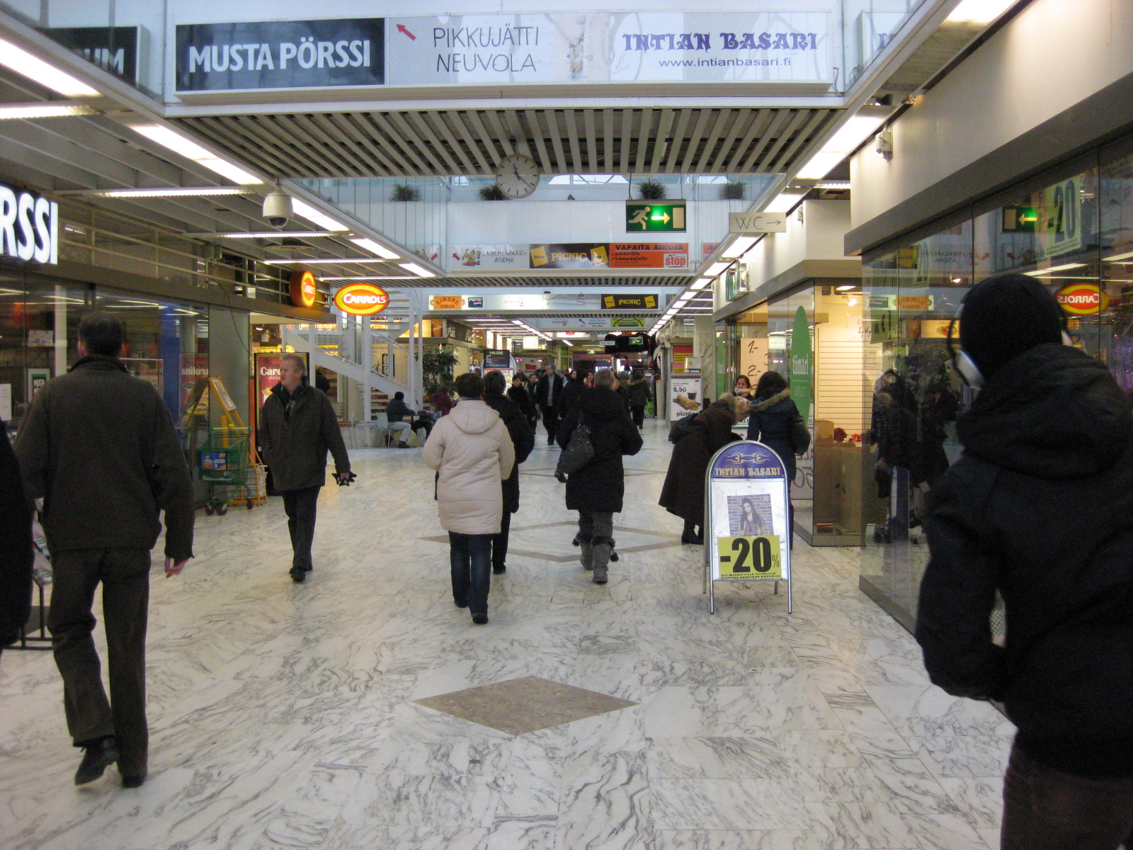 City-Jätti shopping mall in Itäkeskus, Helsinki